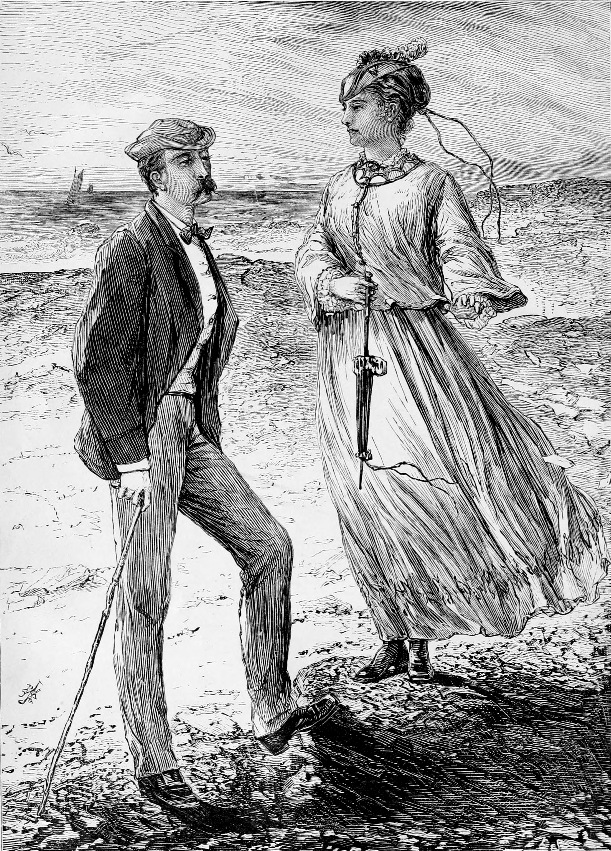 This is an illustration from The Galaxy 6(1), captioned "And she tore the letter twice across, and threw the scraps into the sea". It is intended as an illustration to the short story Osborne's Revenge by Henry James.